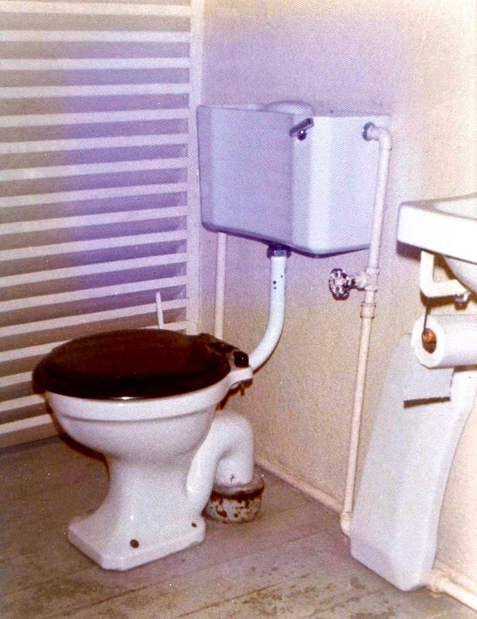 Flush toilet, Belize City, 1975.